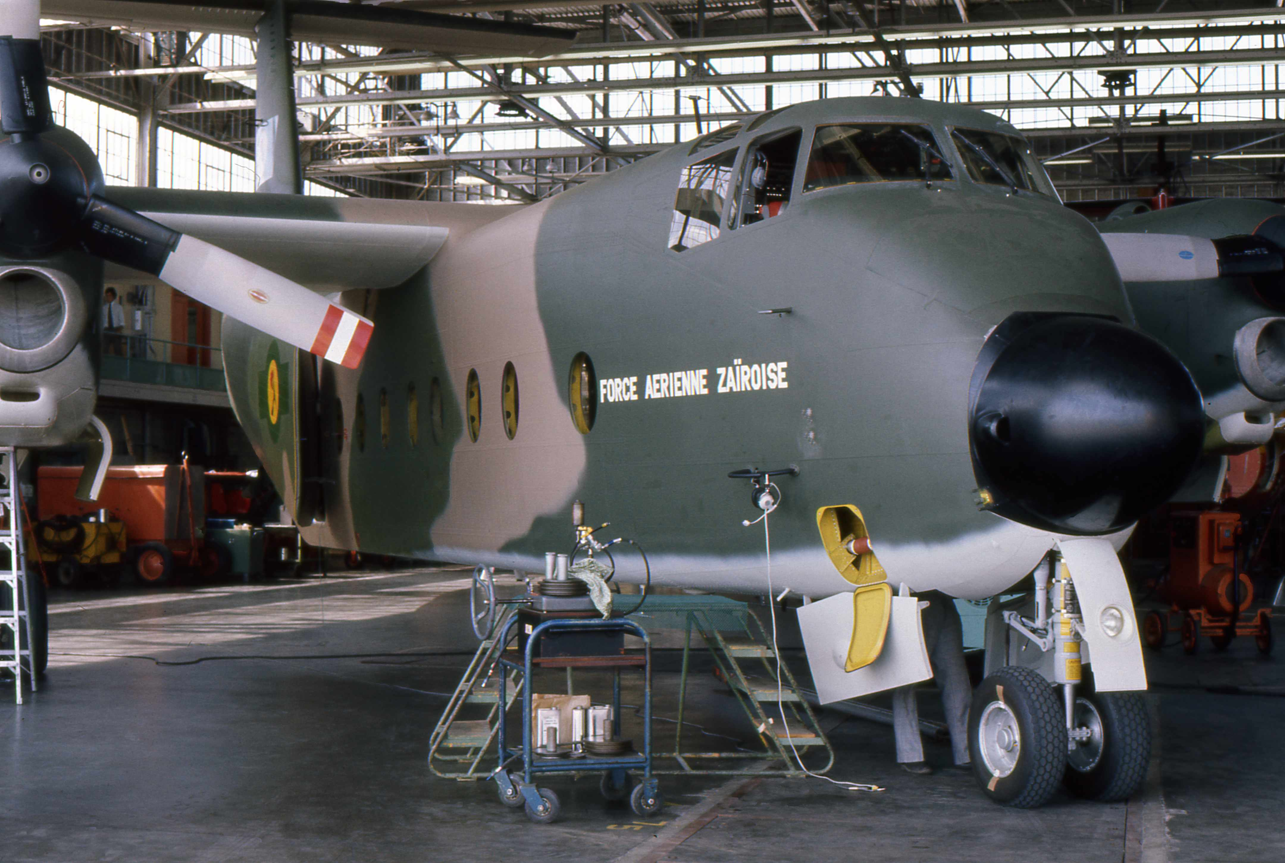 Canada, Downsview. Force Aérienne Zairoise de Havilland Canada DHC-5 Buffalo taken at Downsview de Havilland Canada plant in August 1975 before delivering.